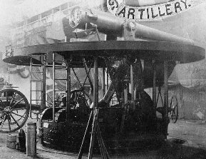 6-inch Disappearing Gun showing barrel in firing position, inside brick drill hall for training purposes, Victoria, B.C., 1897